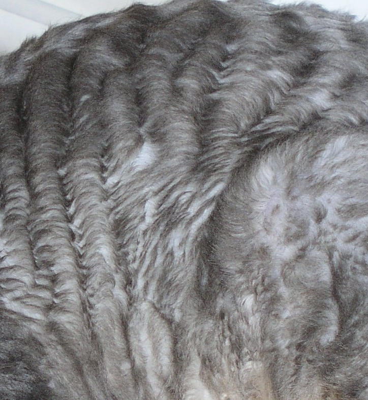 curly coat Cornish Rex